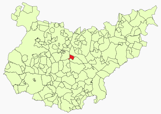 Palomas